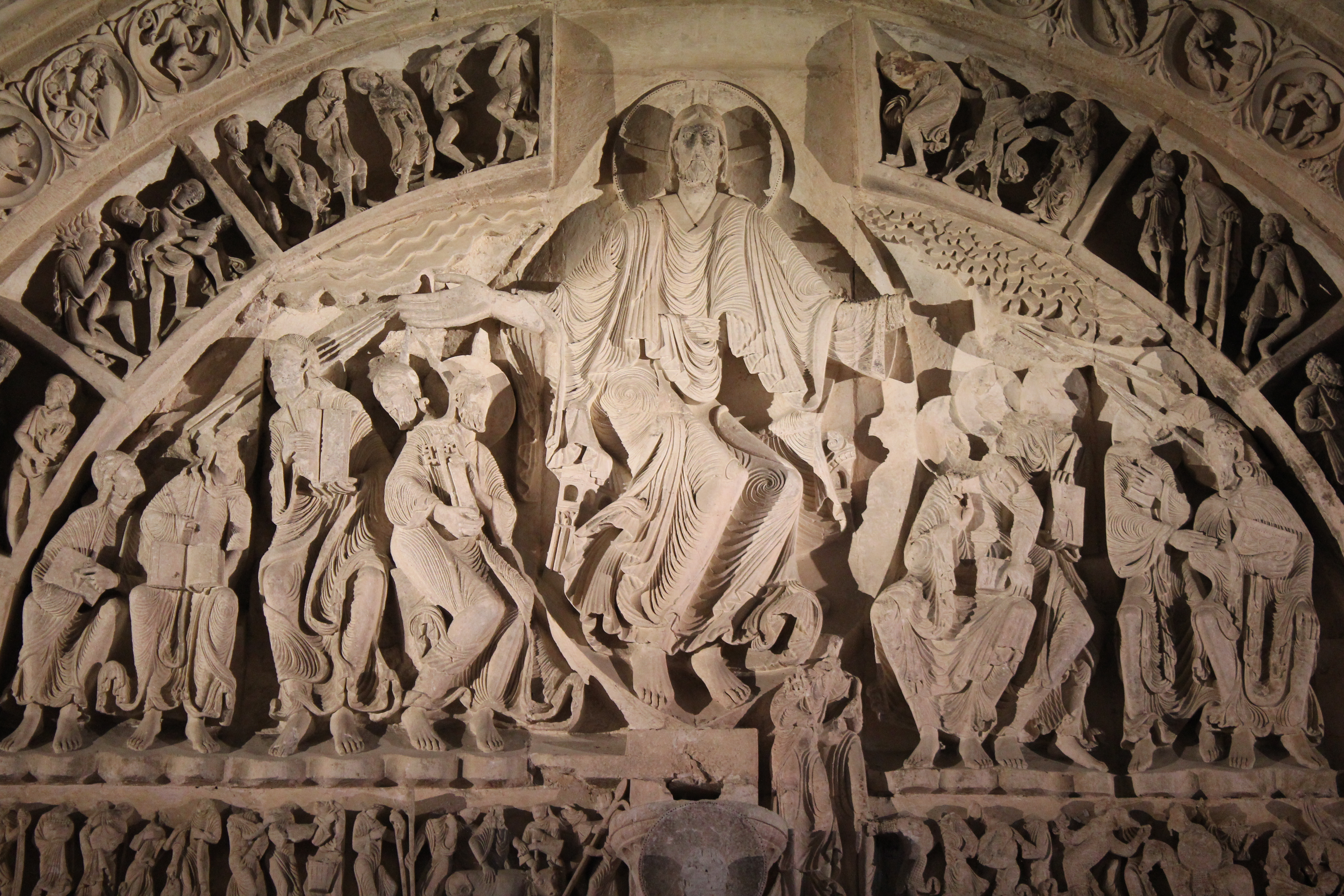 Vezelay Basilica